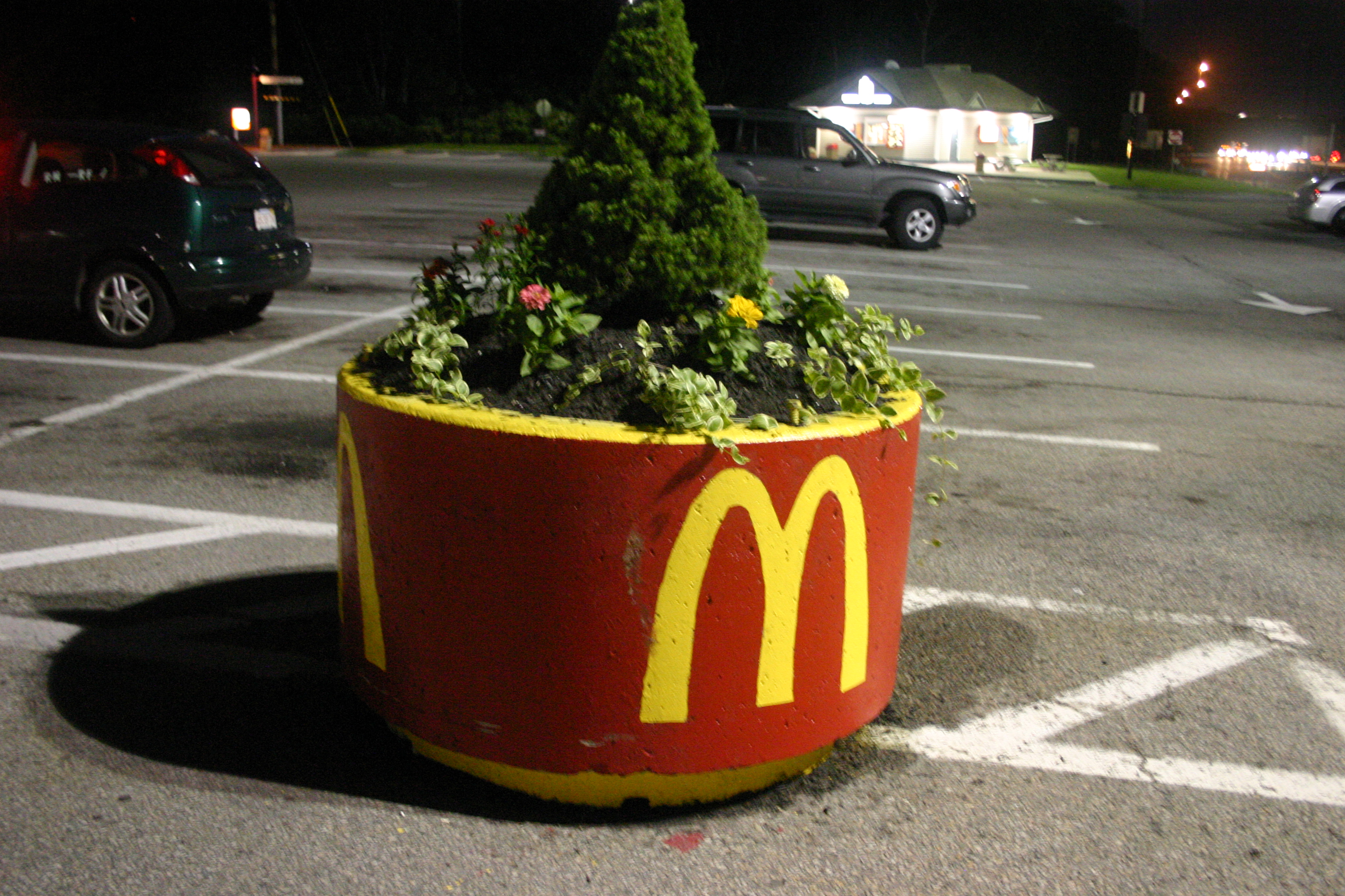 Photo of Landscaping by McDonald's at Rest Stop in Framingham, Ma.